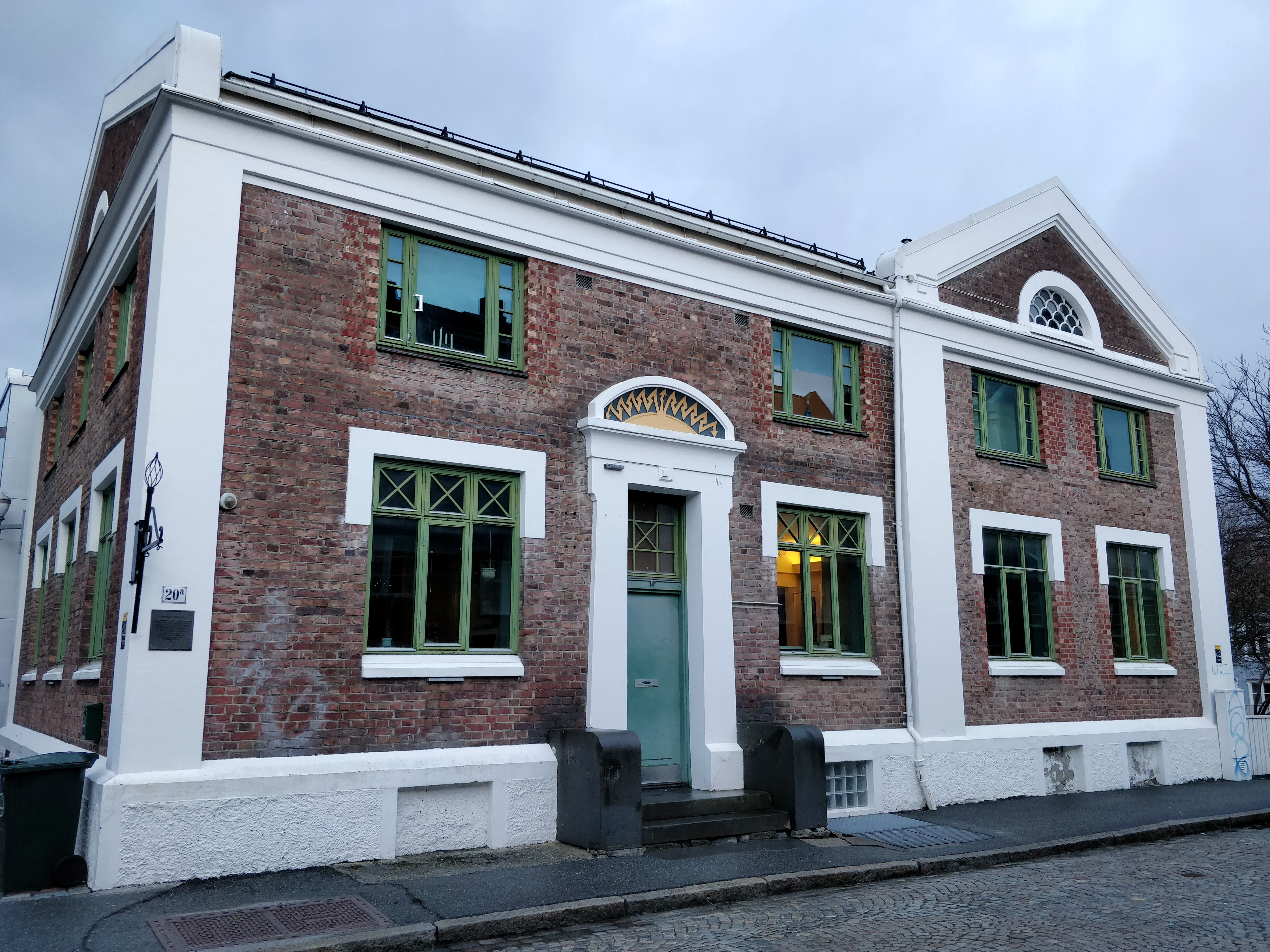 Hospitalsløkkan 20 A (exterior, front), Trondheim, Norway